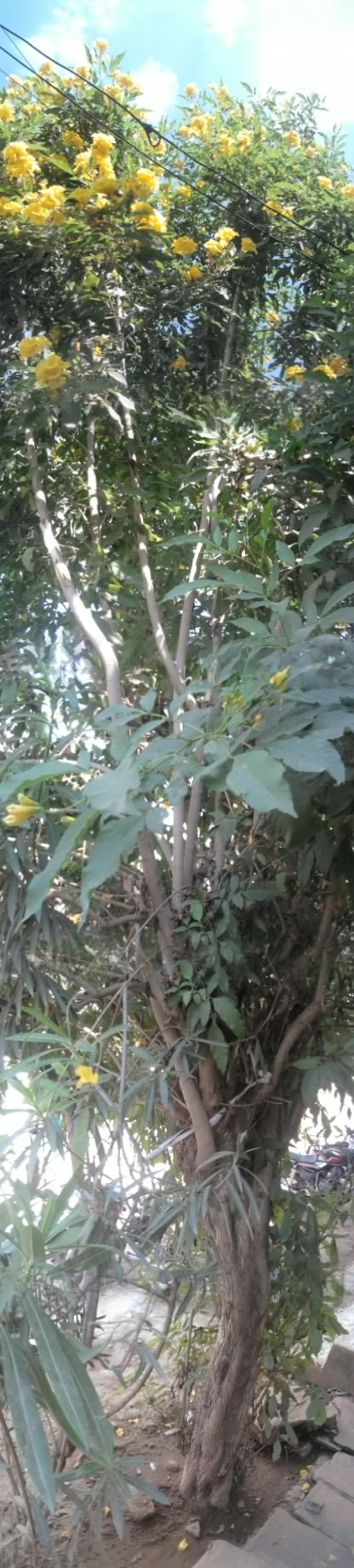 Temple Bell Tree